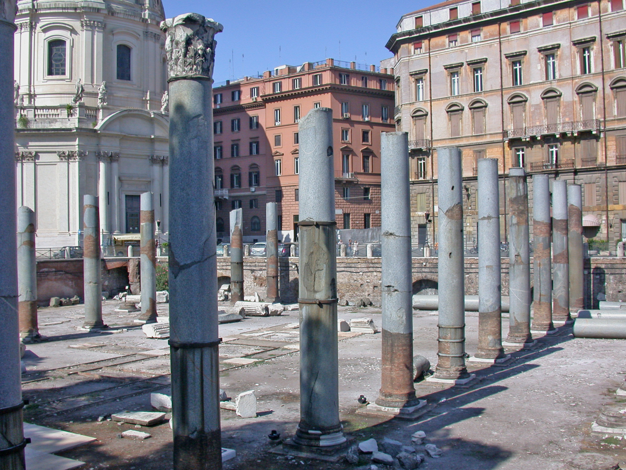 Rome, Trajan's Forum, remains (columns re-erected) in the Basilica Ulpia.